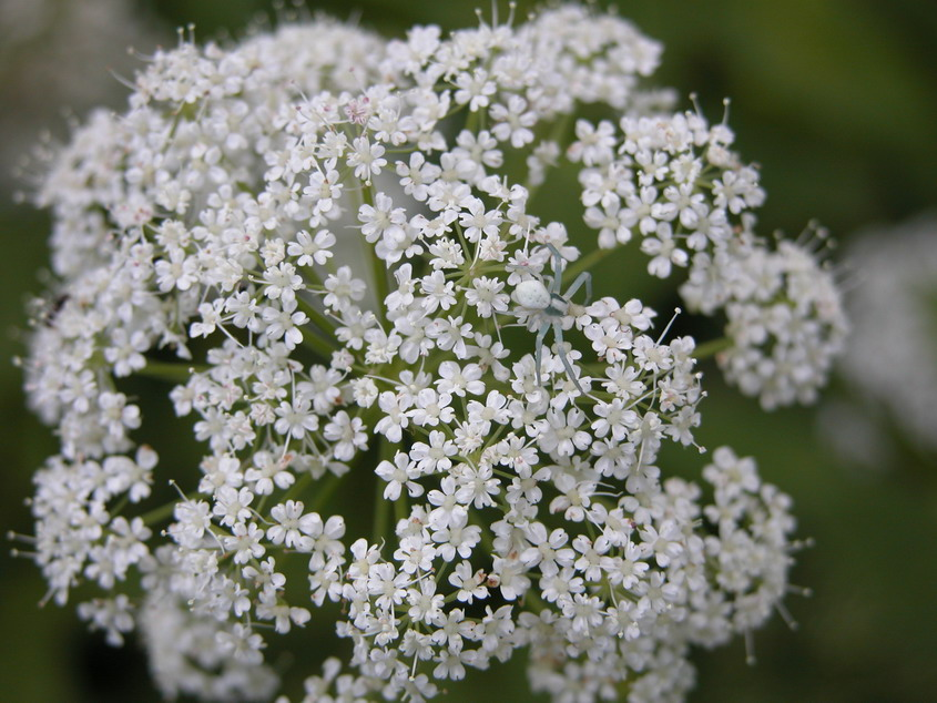 Mimicry of Flower by Crab Spider